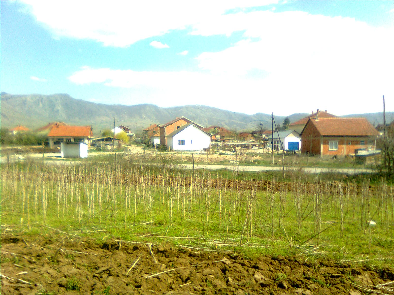 Novo Lagovo